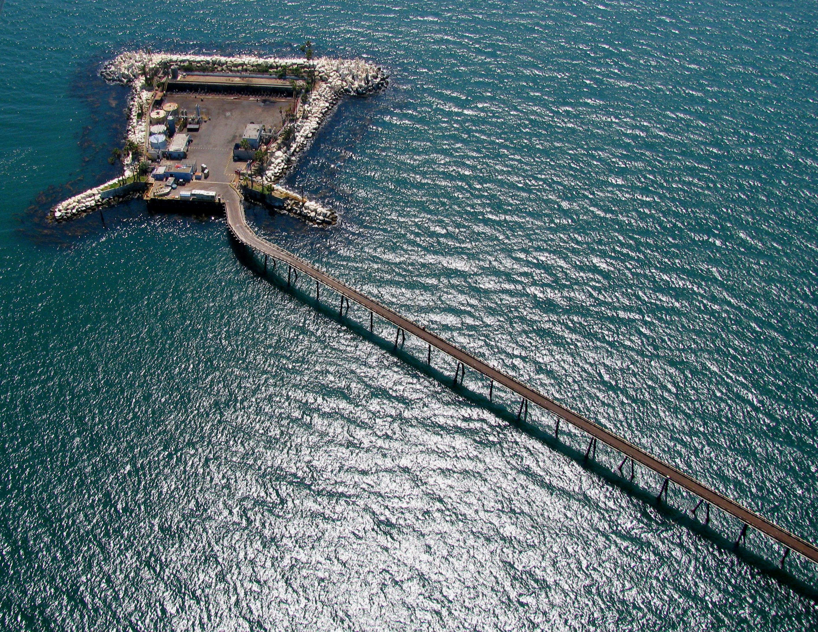 Rincon Island, showing the causeway; photo by self, July 31, 2009; GFDL/equivalent